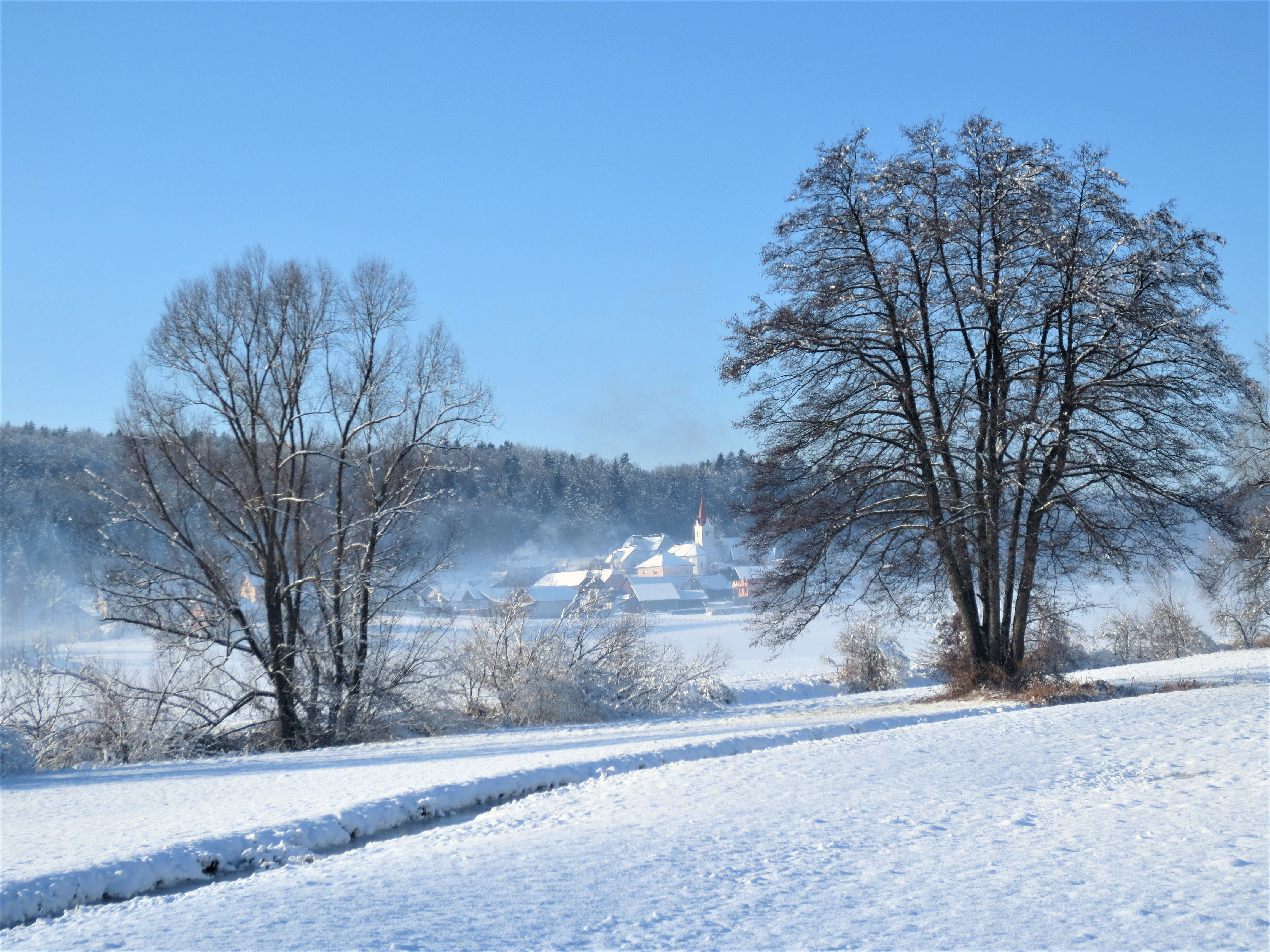 Malo Črnelo near Ivančna gorica, Slovenia